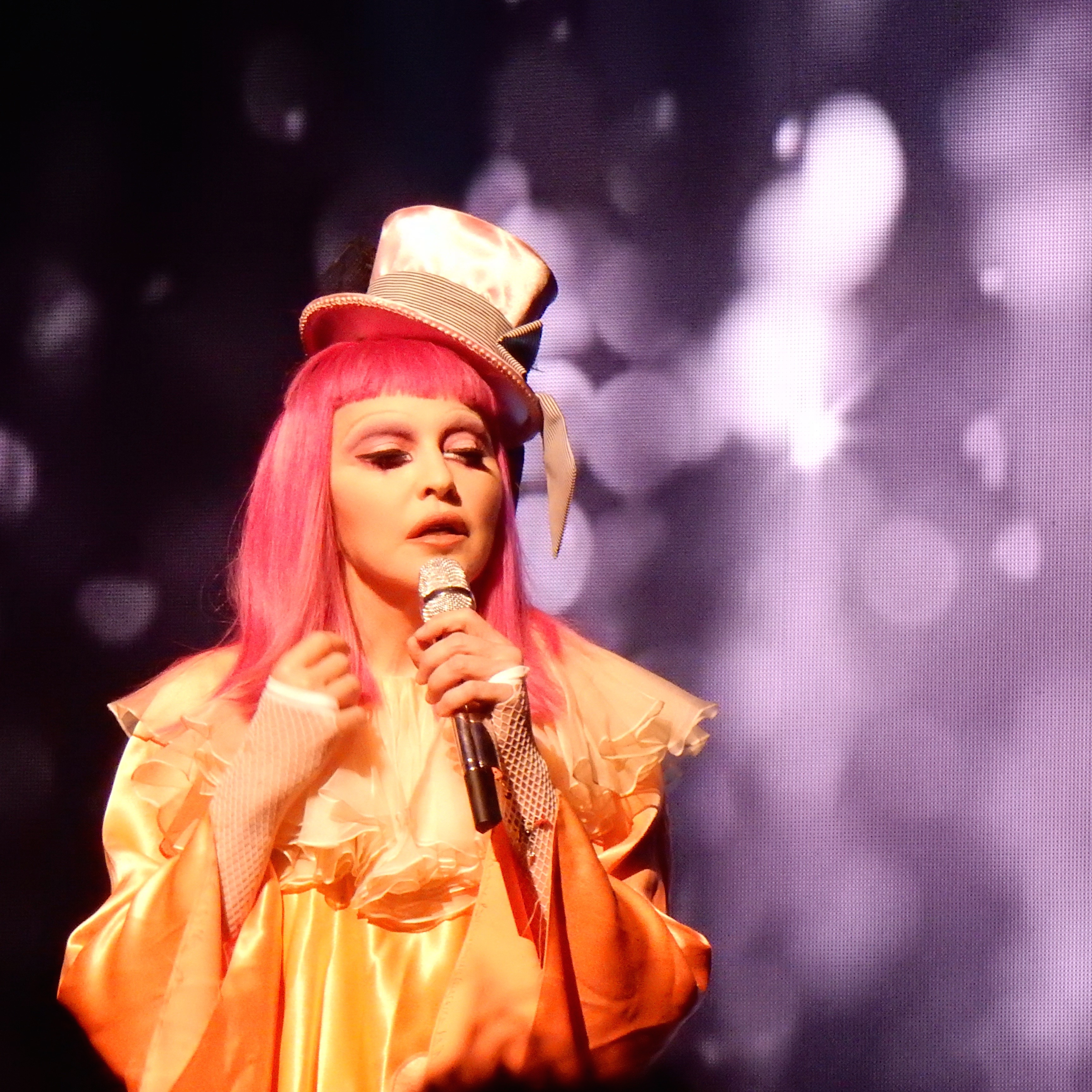 Special fan only show at The Forum, Melbourne, 10 March 2016